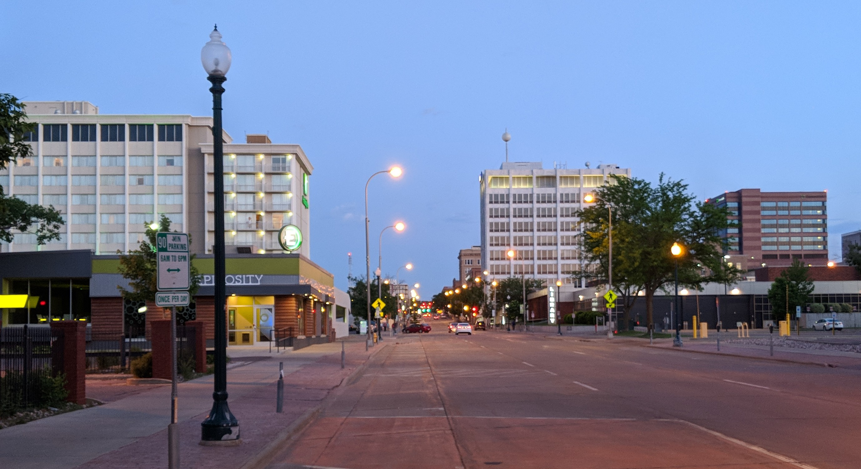 Looking South on Main Ave - 06/04/18